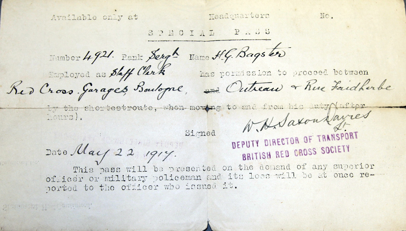 H.G. Bagster joined the British Red Cross and served in World War I as a member of the Red Cross. I brought three items to the NLI roadshow day on 21 March - 1 special pass, 1 photo, and 1 Red Cross letter of recommendation.